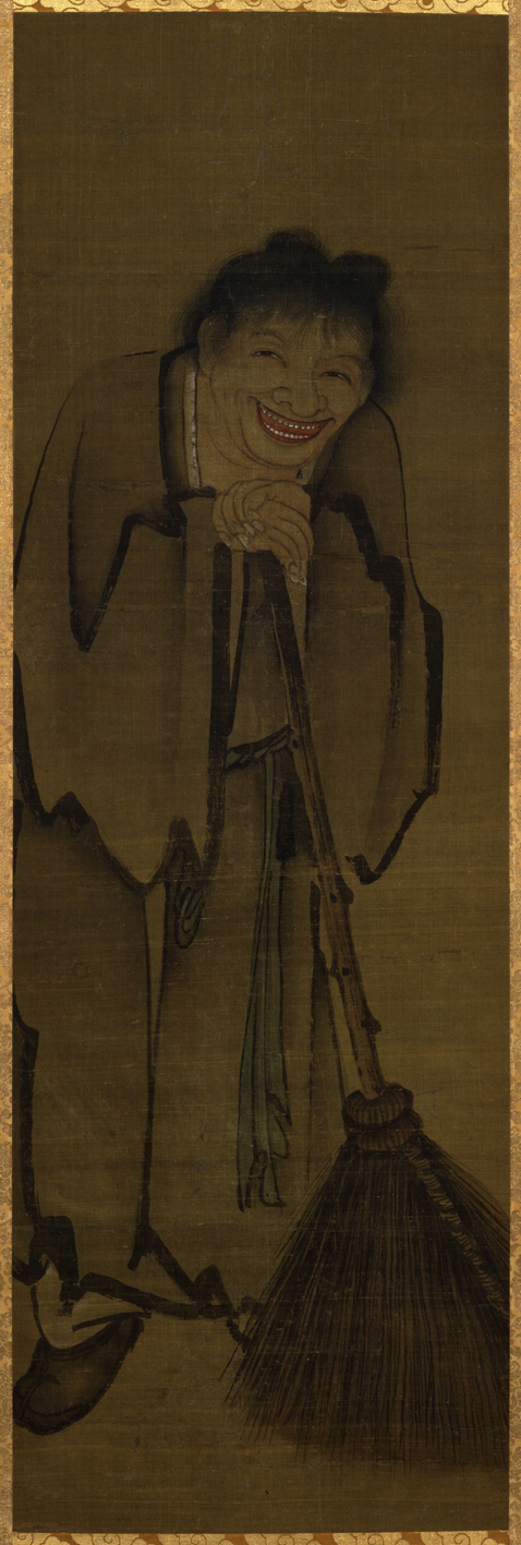 ShiDe - Late 13th century painting the Chinese monk Shide. Work by Yan Hui. Color on silk. Tokyo National Museum.